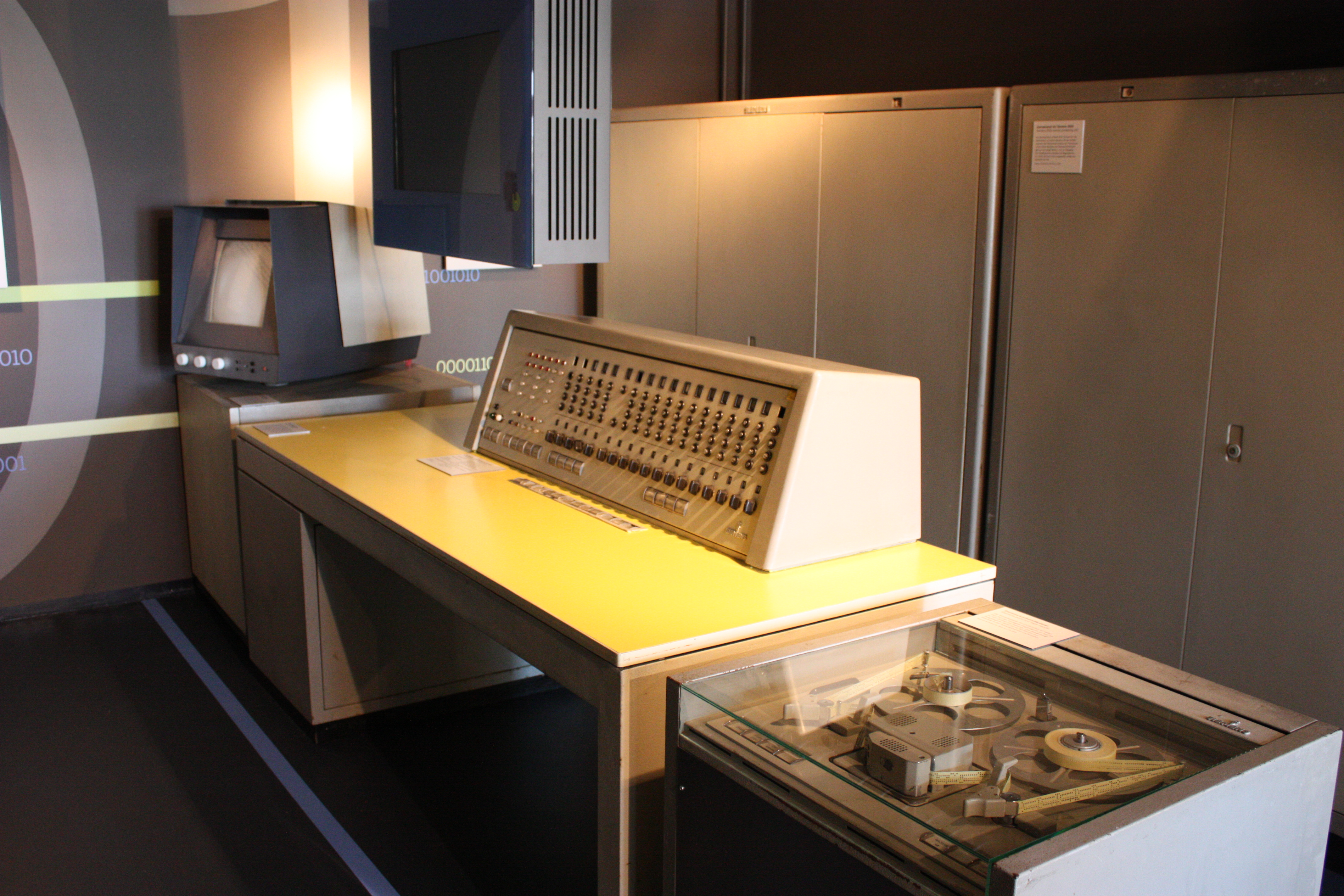 Siemens 2002 in Computermuseum der Fachhochschule Kiel